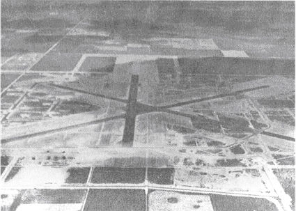 Aerial photograph of Homestead Army Airfield.